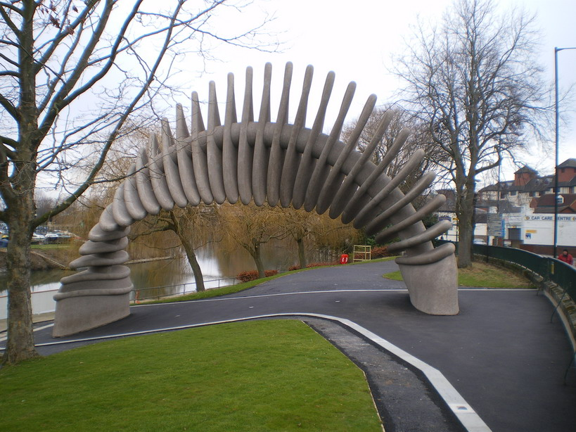 Quantum Leap - the sculpture. A view from the opposite direction to 1622961 of the concrete sculpture recently erected in Shrewsbury. Its installation stirred up a certain amount of controversy in the town and in the local press.